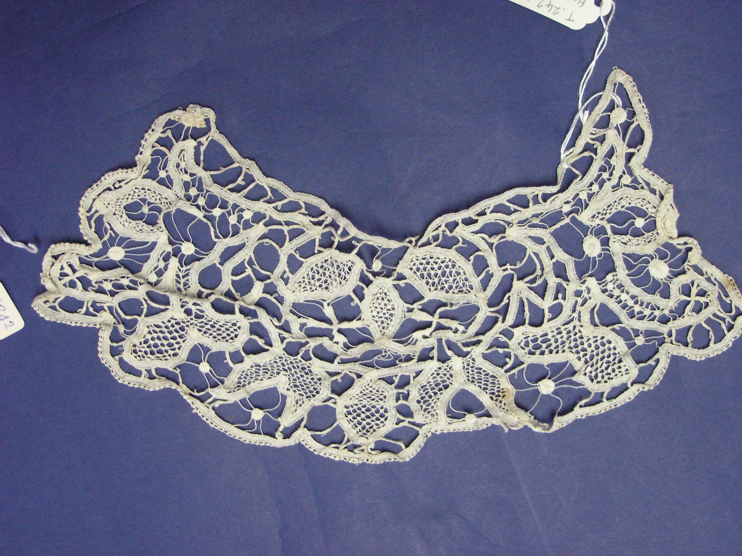 42 pieces of lace, insertions and collars, one piece unfinished, three pieces of tatting. Cotton and linen braid lace. Cream (.8 - .24), Cream and Brown (.25 - .40).